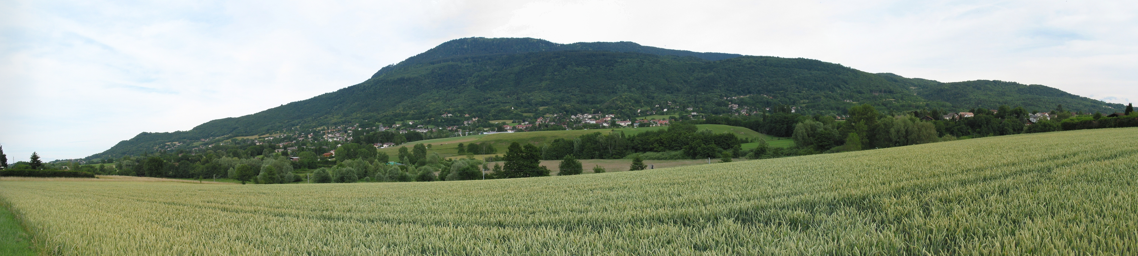 Les Voirons